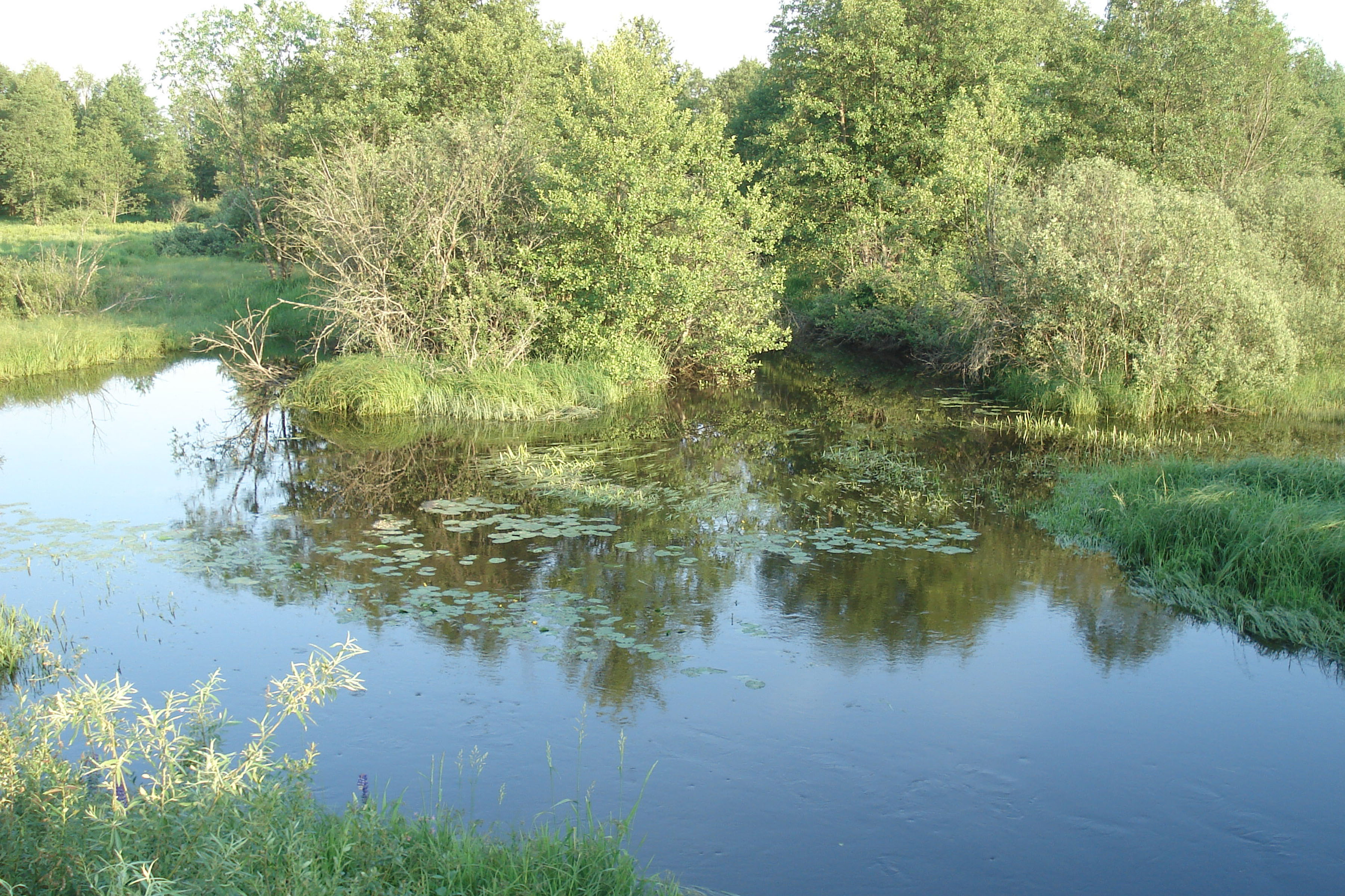 The Volnaya River about the village of Stepanovka, Moscow oblast